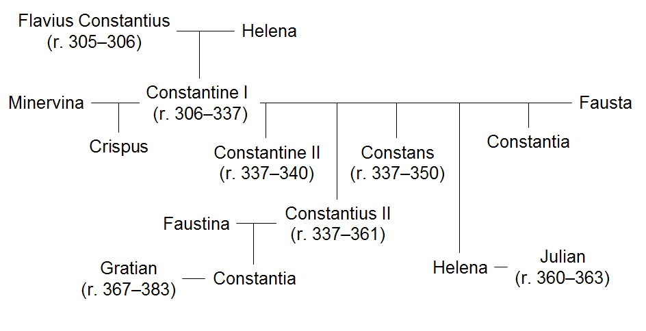 A tree displaying Constantine's father and mother, wives, sons, and daughters, and the continuation of the Constantian dynasty up to Gratian.